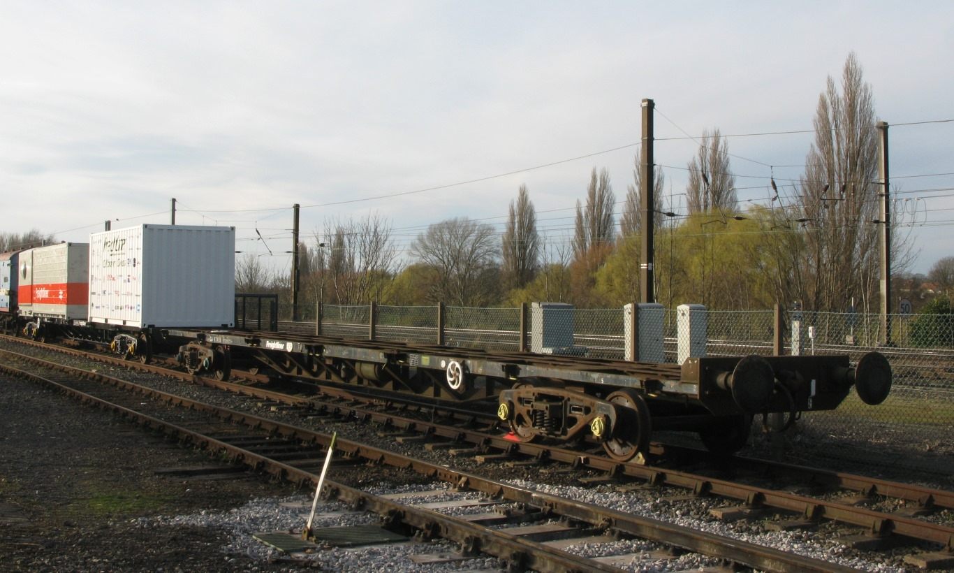 A pair of British Rail 'Freightliner' flat wagons and some representative containers outside outside the National Railway Museum in York. These air0braked wagons were usually operated in five-wagon sets with semi-bar couplings between the inner wagons but conventional buffers and screw couplings at the outer ends as seen here.